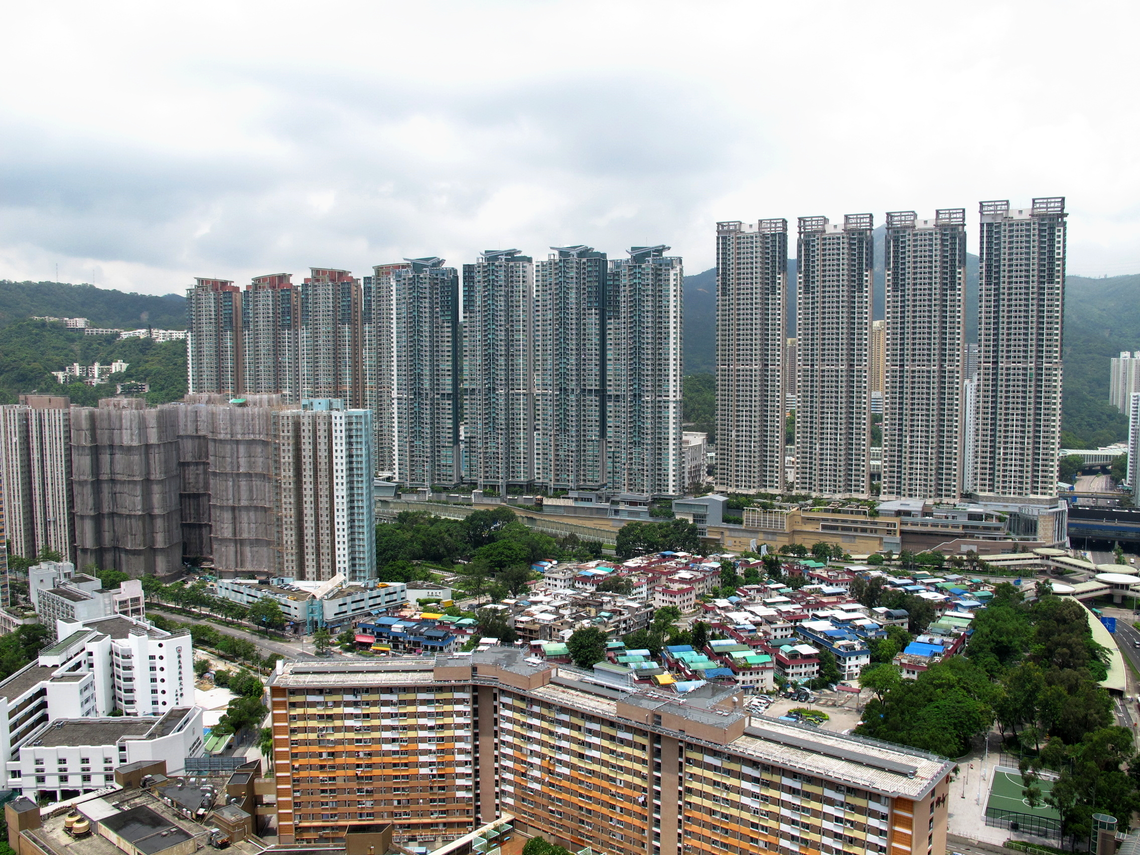 HK Festival City 大圍名城